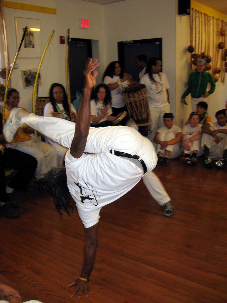 Mestre Cobra Mansa standing om one hand in a roda de capoeira angola at the 10th Annual FICA Women's Conference 2008 Washington D.C.